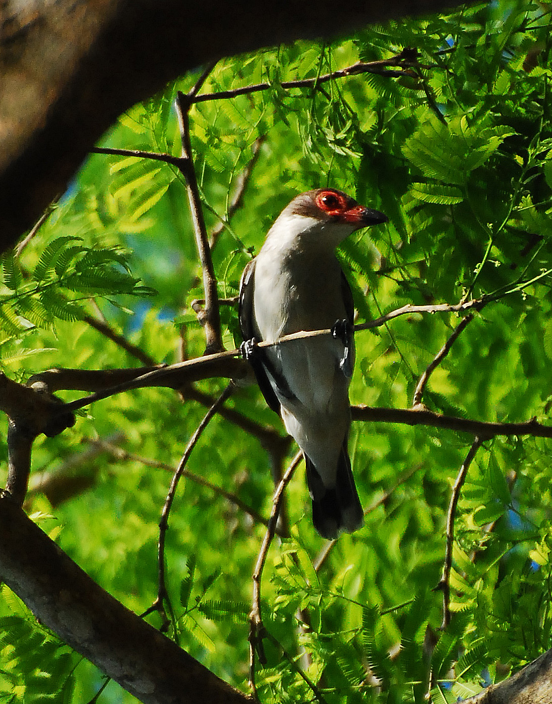 Masked Tityra at La Ensenada Ranch, Costa Rica, 080223. Tityra semifasciata.